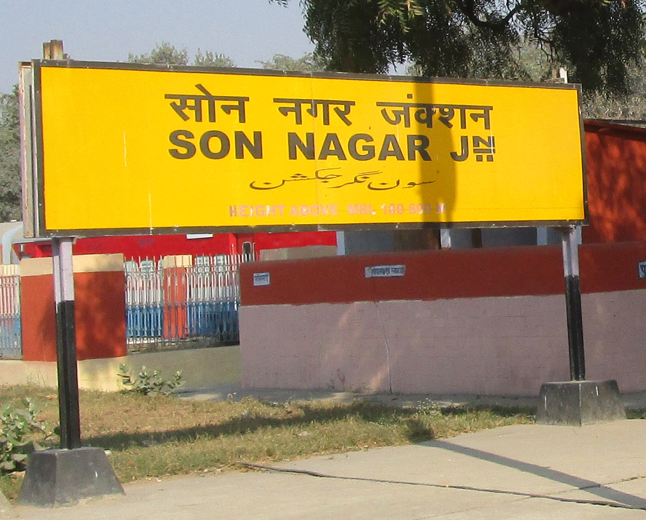 Son Nagar railway station nameplate